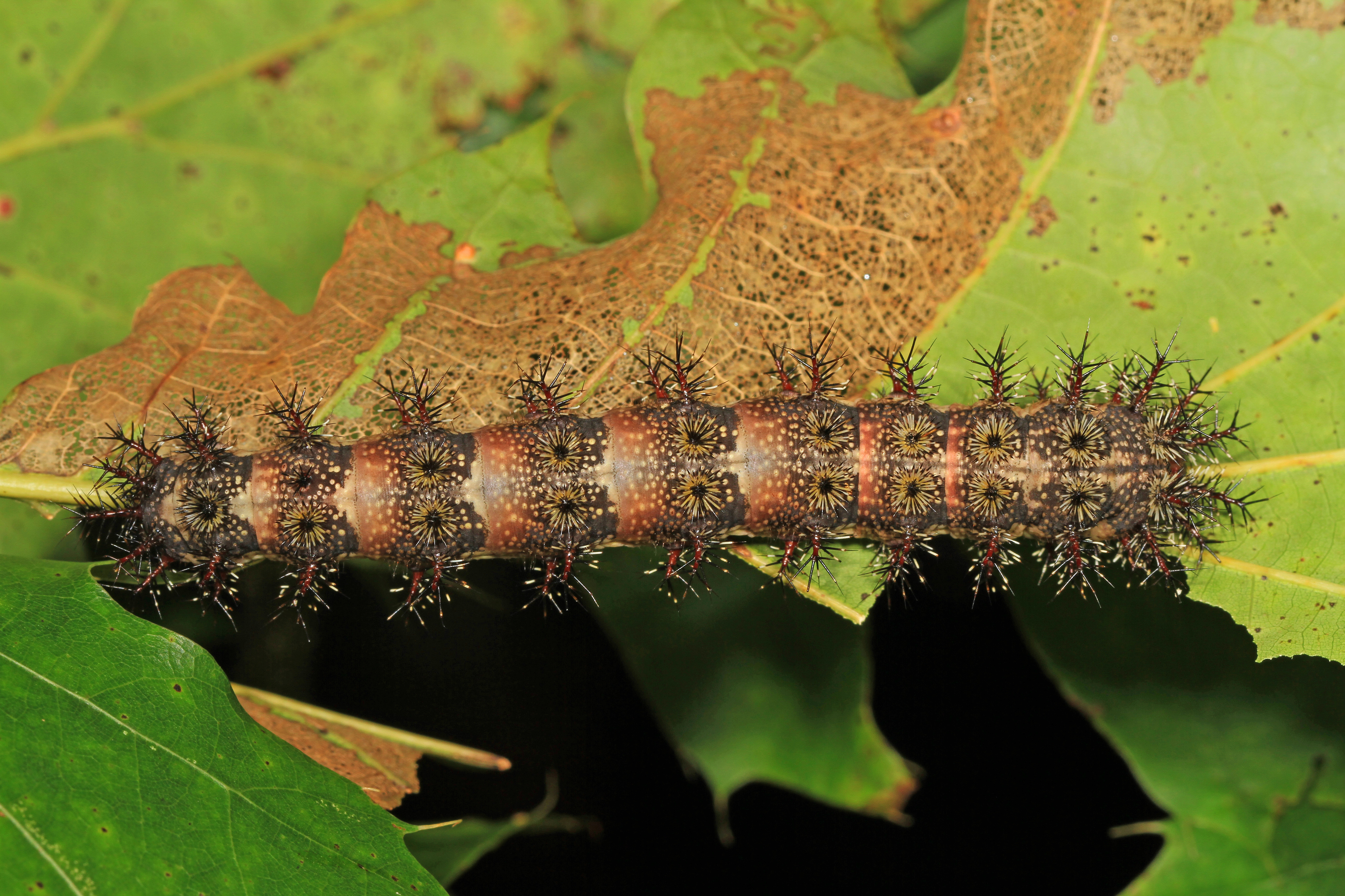 Buck Moth caterpillar - Hemileuca maia, Meadowood Farm SRMA, Mason Neck, Virginia. These are big - about 2 inches or 5 cm. long.